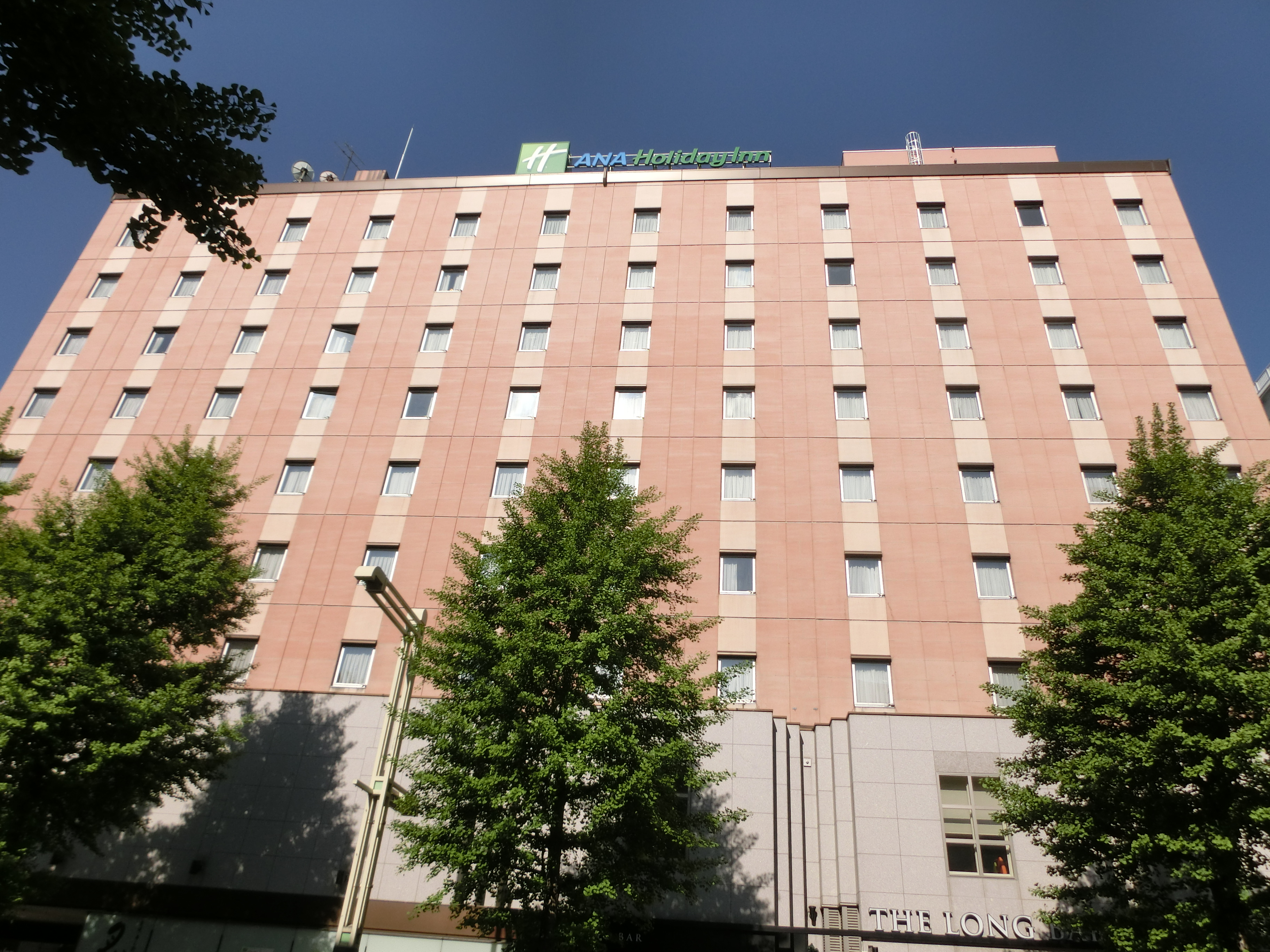 ANA Holiday Inn Sapporo Susukino